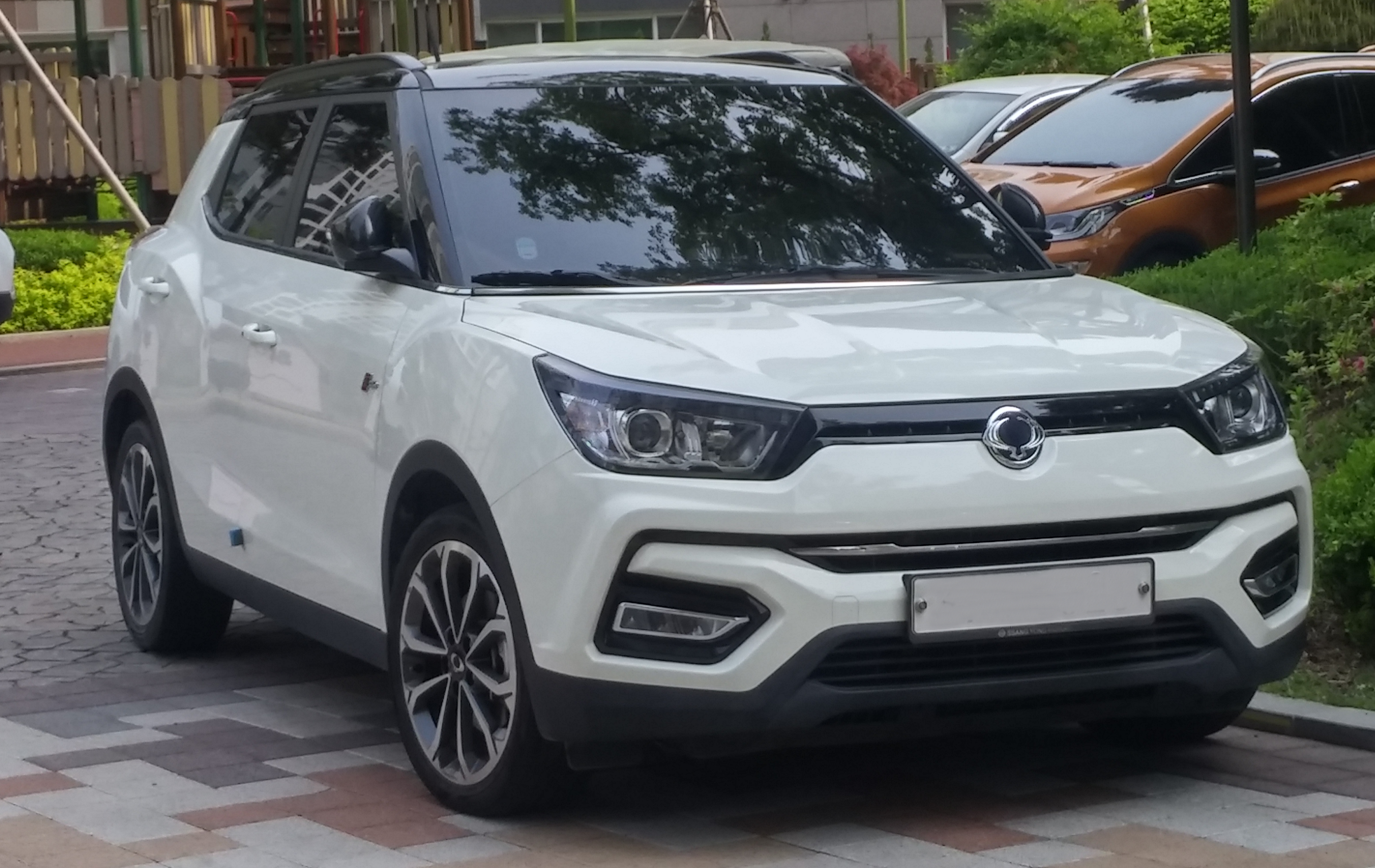 2018 SsangYong Tivoli with 4WD, LED foglamp and two-tone exterior. Taken in S. Korea